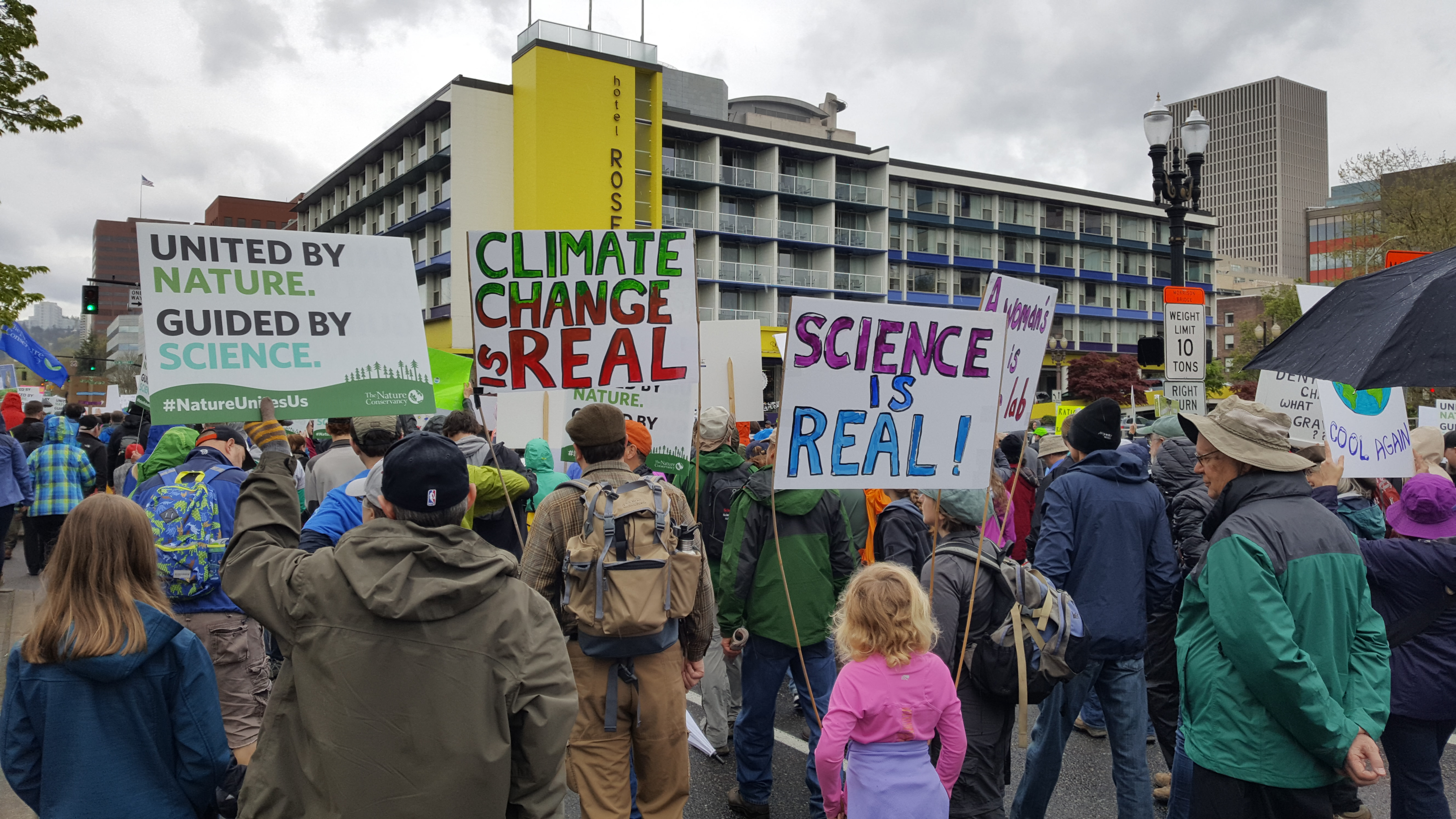 March for Science, PDX, 2017